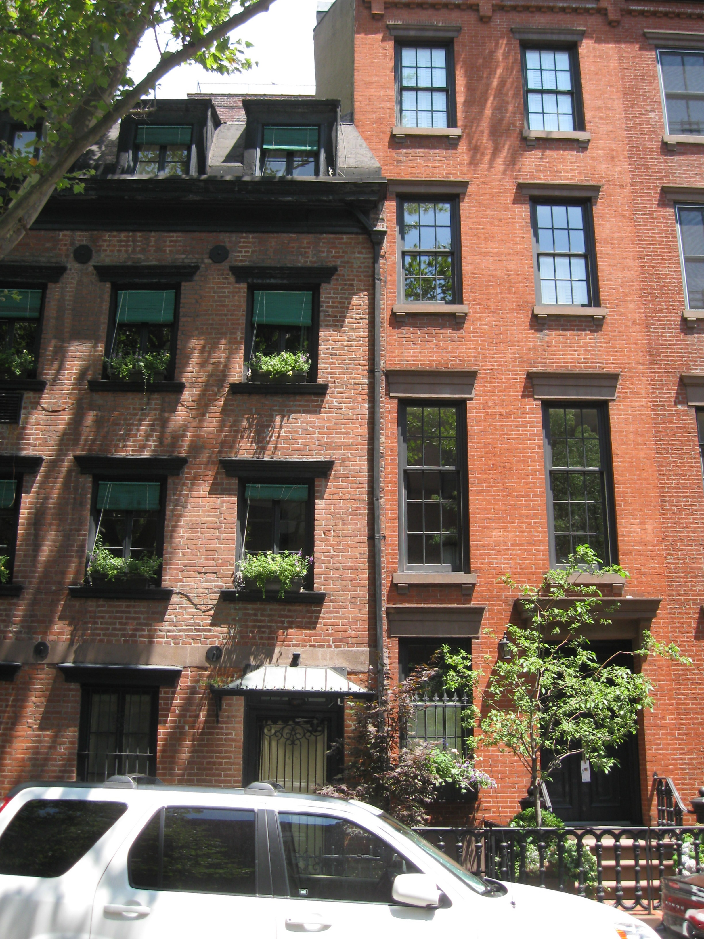 View of 45 West 12th Street overlapping 43 West 12th Street (Manhattan, New York)